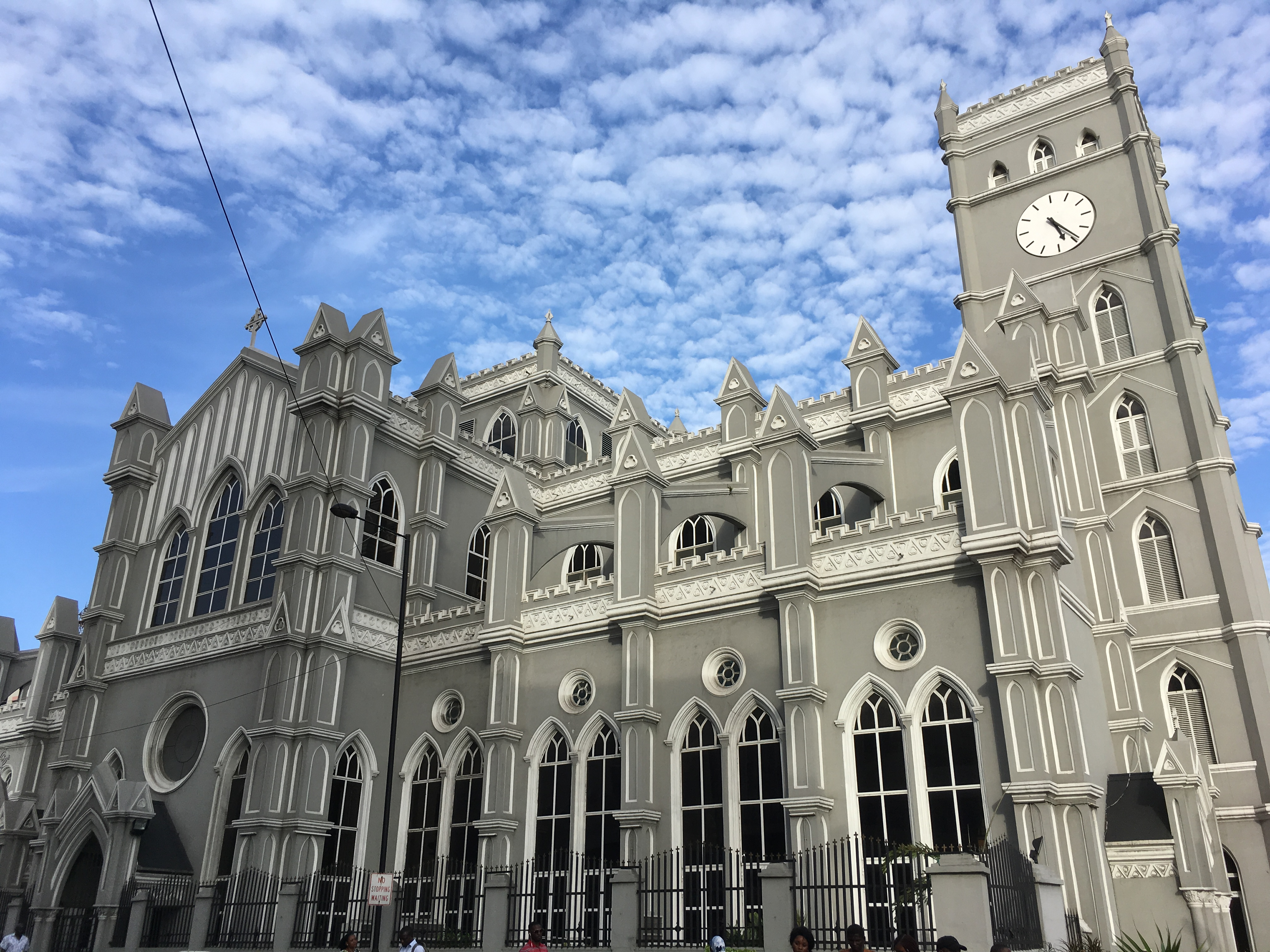 The Cathedral Church of Christ Marina, Lagos is an Anglican cathedral on Lagos Island, Lagos, Nigeria.